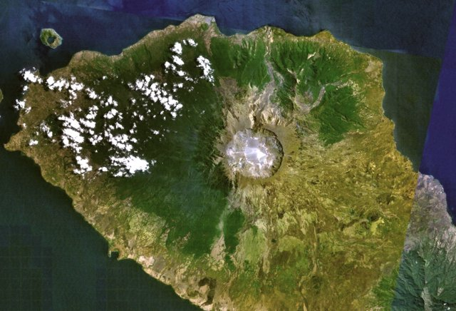 Tambora volcano on Indonesia's Sumbawa Island was the site of the world's largest historical eruption in April 1815. This NASA Landsat mosaic shows the 6-km-wide caldera truncating the 2850-m-high summit of the massive volcano. Pyroclastic flows during the 1815 eruption reached the sea on all sides of the 60-km-wide volcanic peninsula, and the ejection of large amounts of tephra caused world-wide temperature declines in 1815 and 1816.